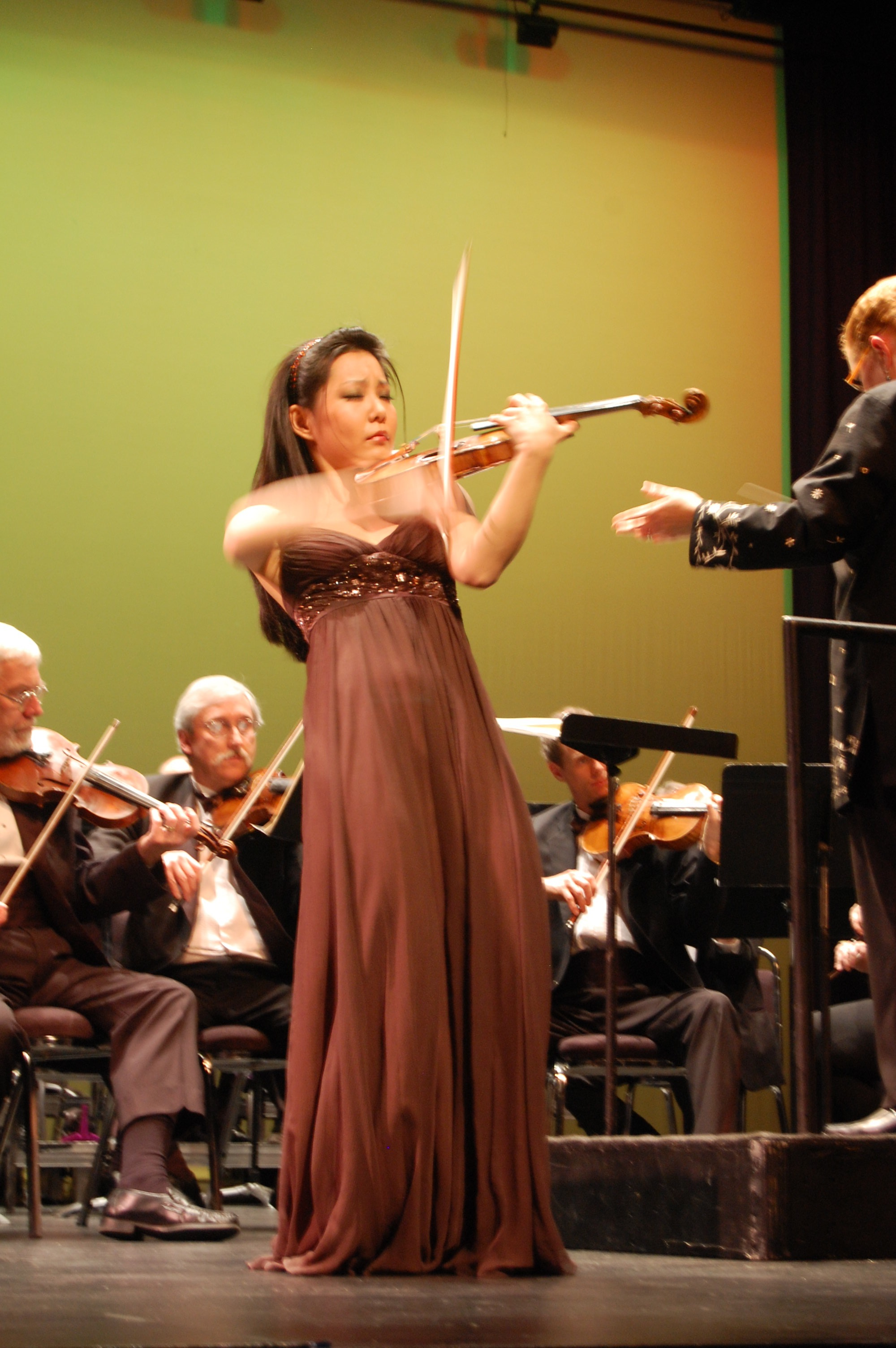 Susanne Hou performing the Mendelssohn violin concerto with the Okanagan Symphony Orchestra in Vernon, BC, Canada.